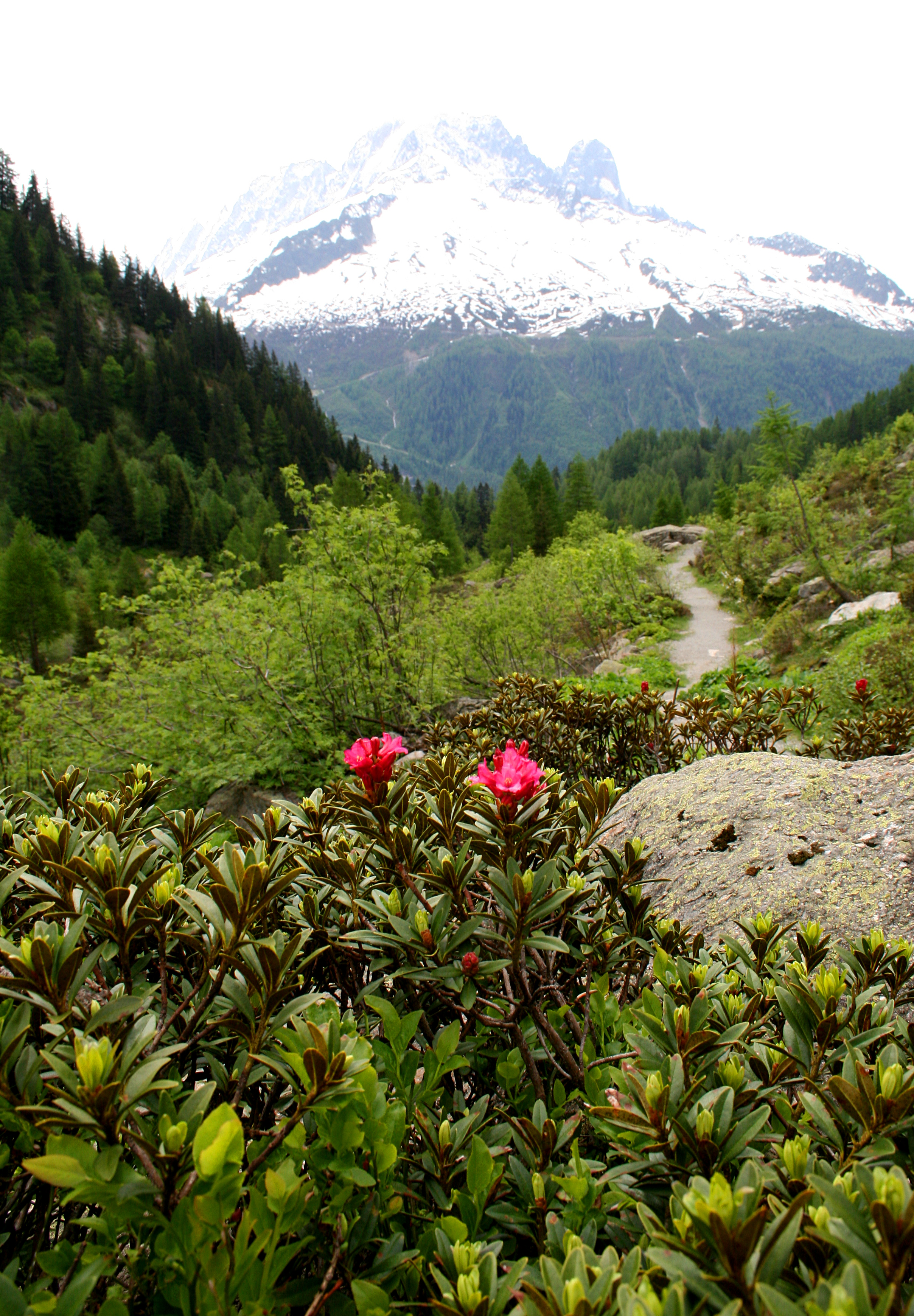 Alpenrose